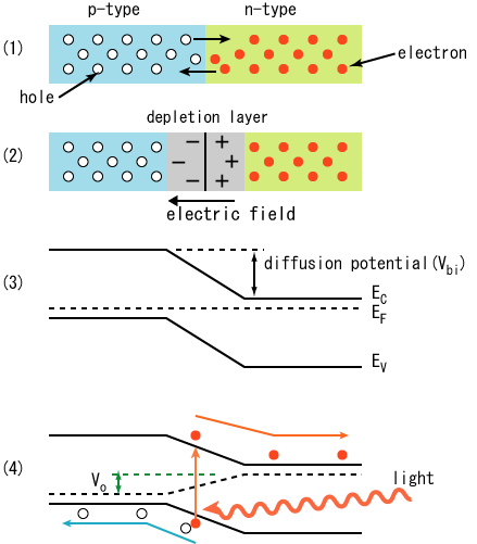 Photovoltaic effect on p-n junctions